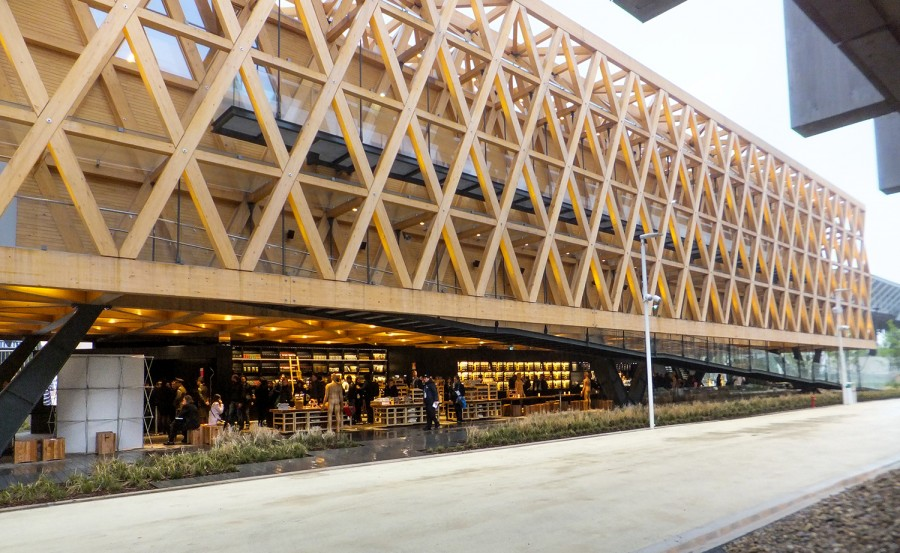 El Amor A Chile